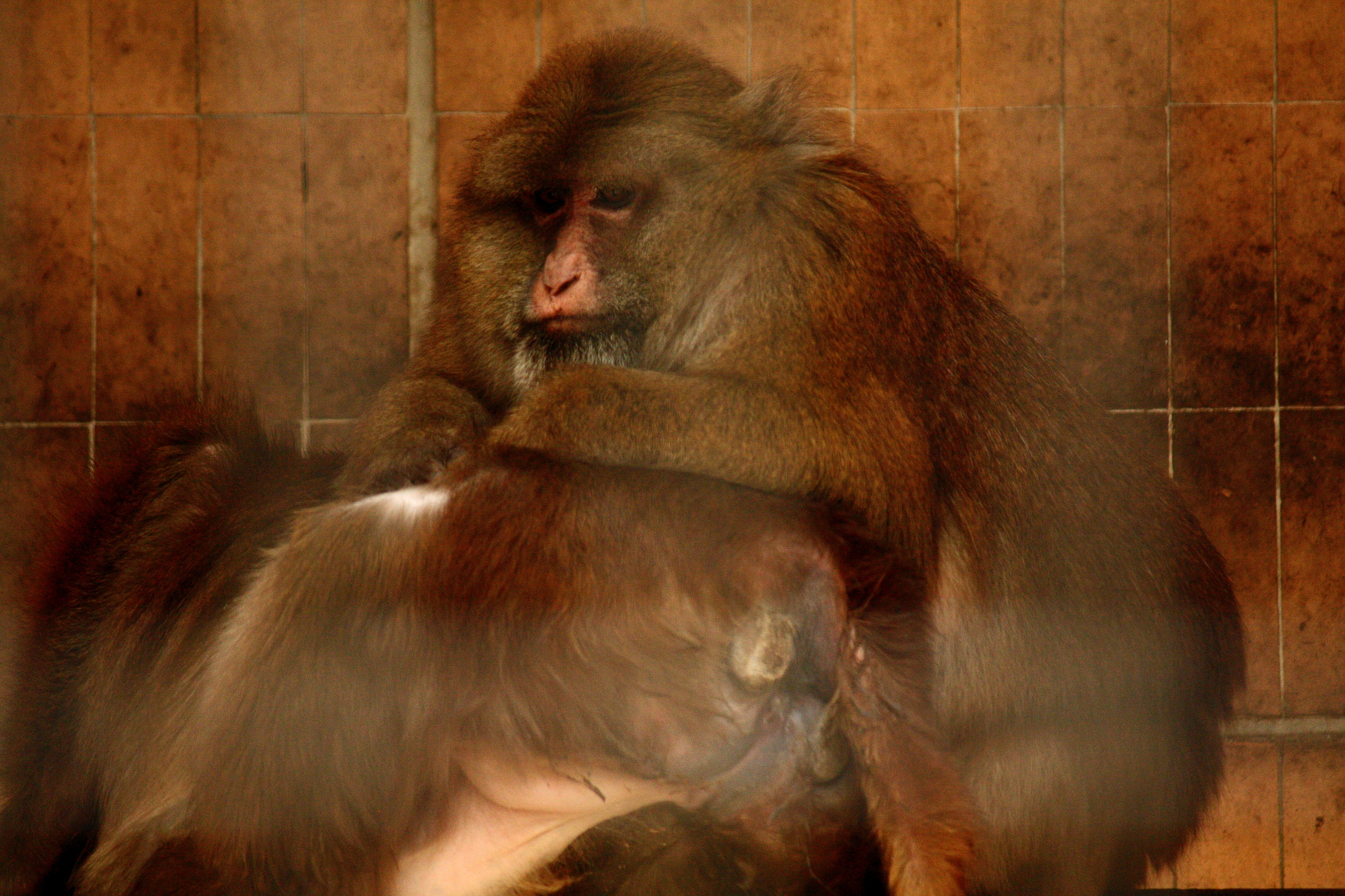 Assam Macaque